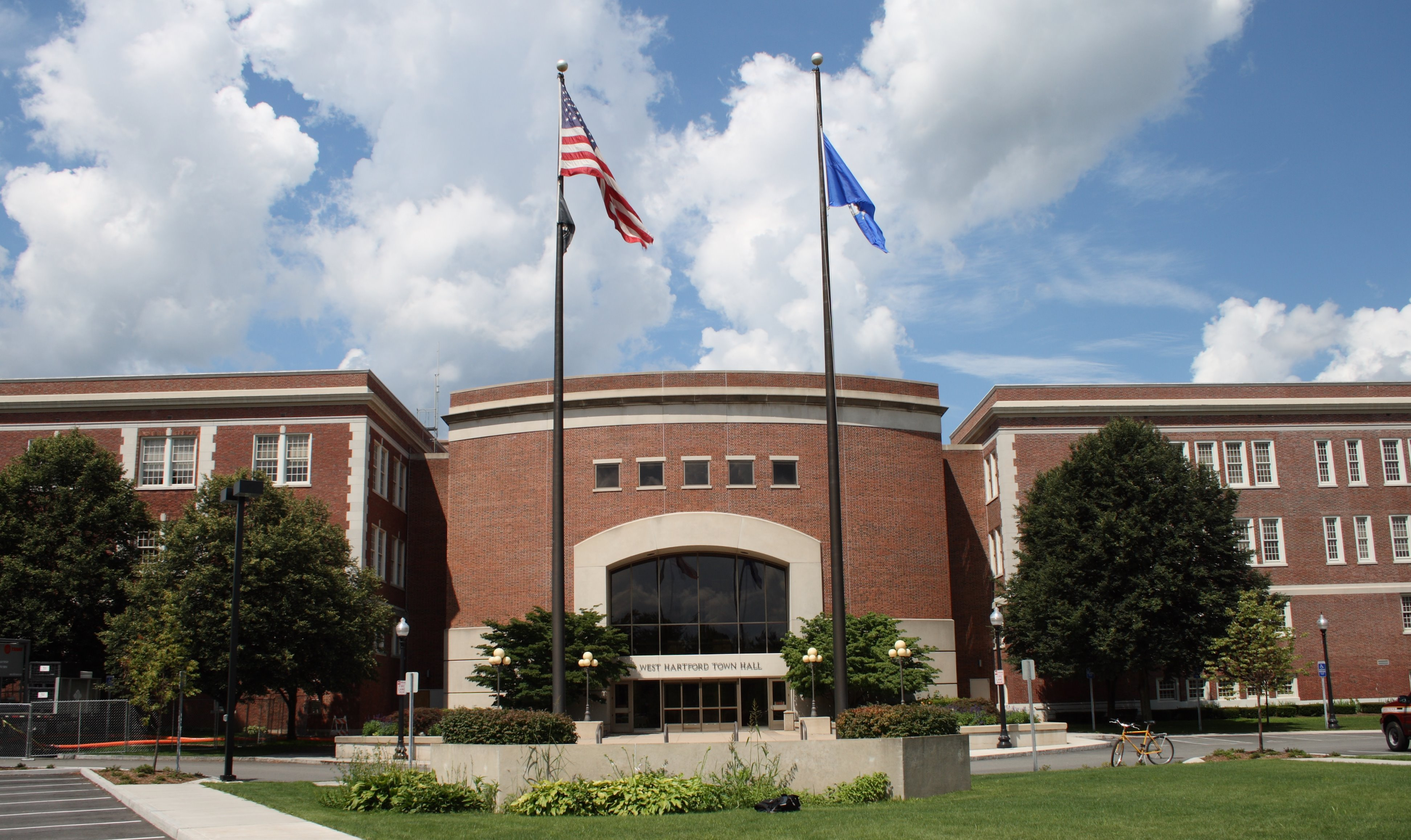 The Town Hall of West Hartford, Connecticut